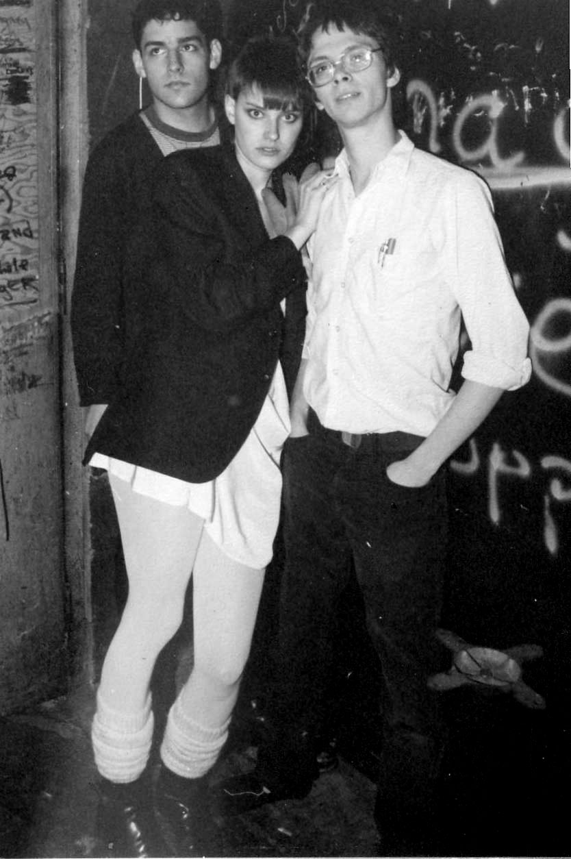 The Young Snakes backstage at the Underground, Allston, MA. From left to right are Dave Bass, Aimee Mann, and Doug Vargas.